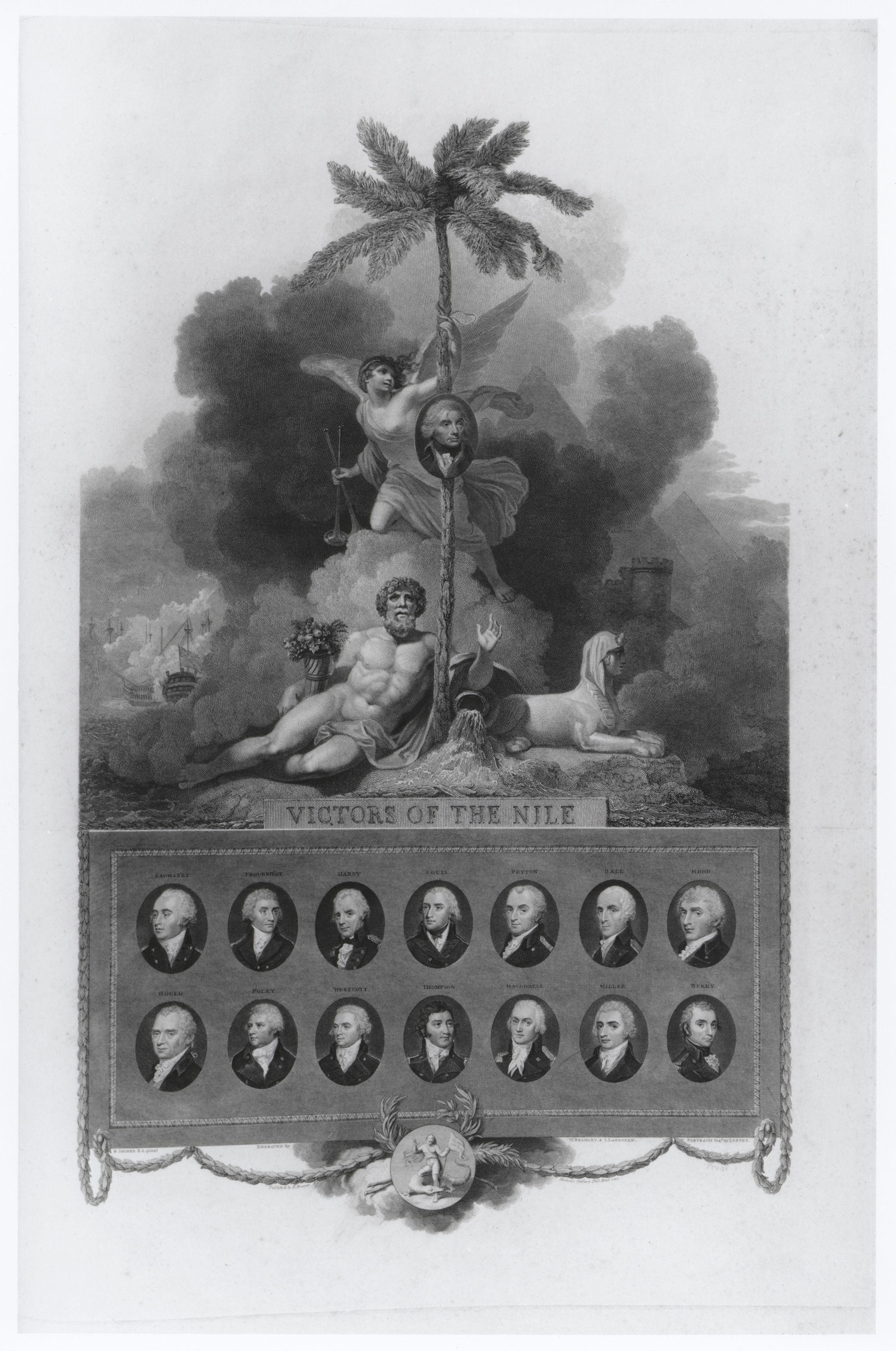 Victors of the Nile, by Robert Bowyer (died 1834), published 1803. All images in this batch have been confirmed as author died before 1939 according to the official death date listed by the NPG.